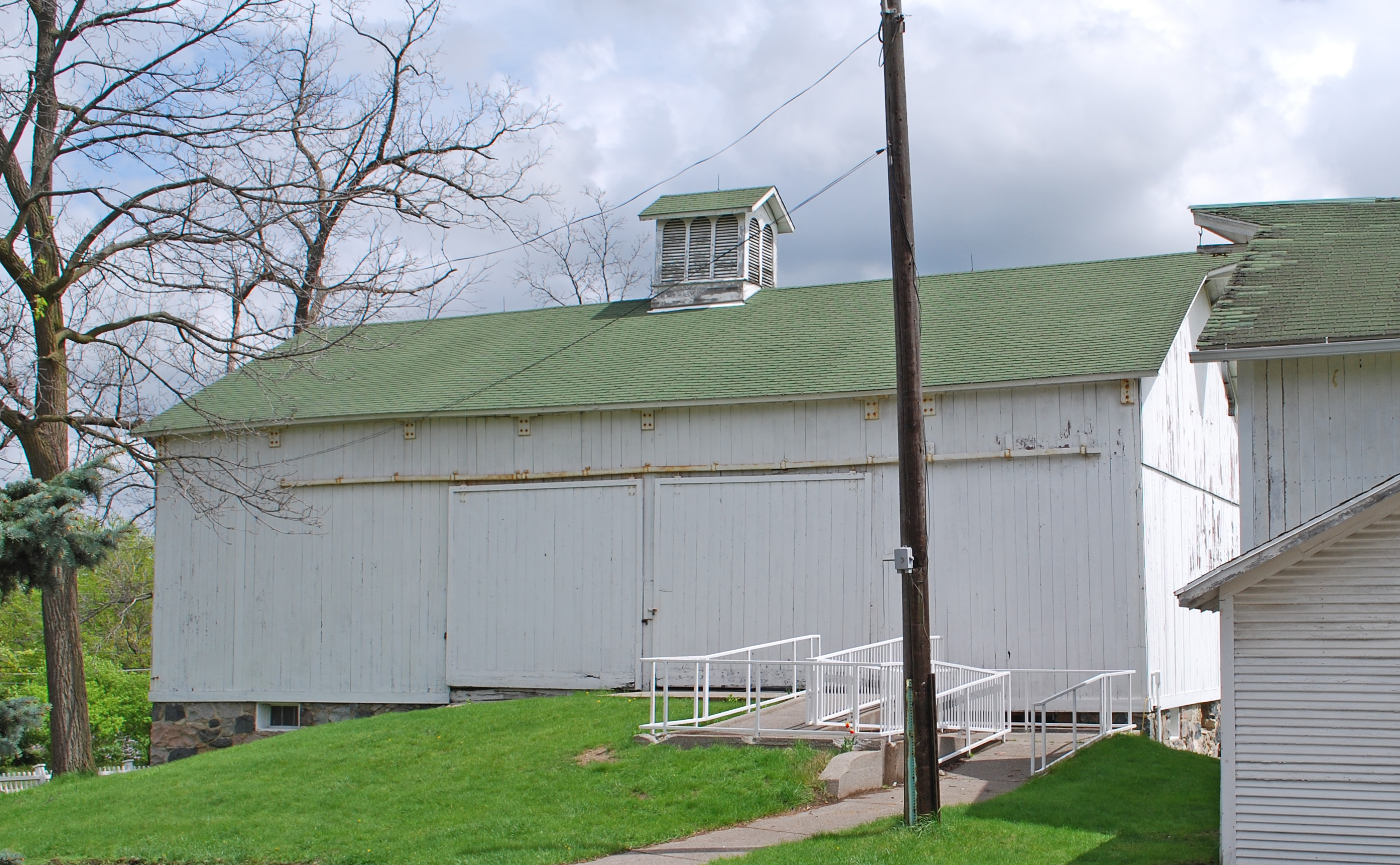 The North barn, built by Joshua Simmons (1829) — in Greenmead Village Historic Park. An open-air museum located in Livonia, Wayne County, southeastern Michigan. The first barn constructed in Livonia, a Michigan State Historic Site, and on the National Register of Historic Places.